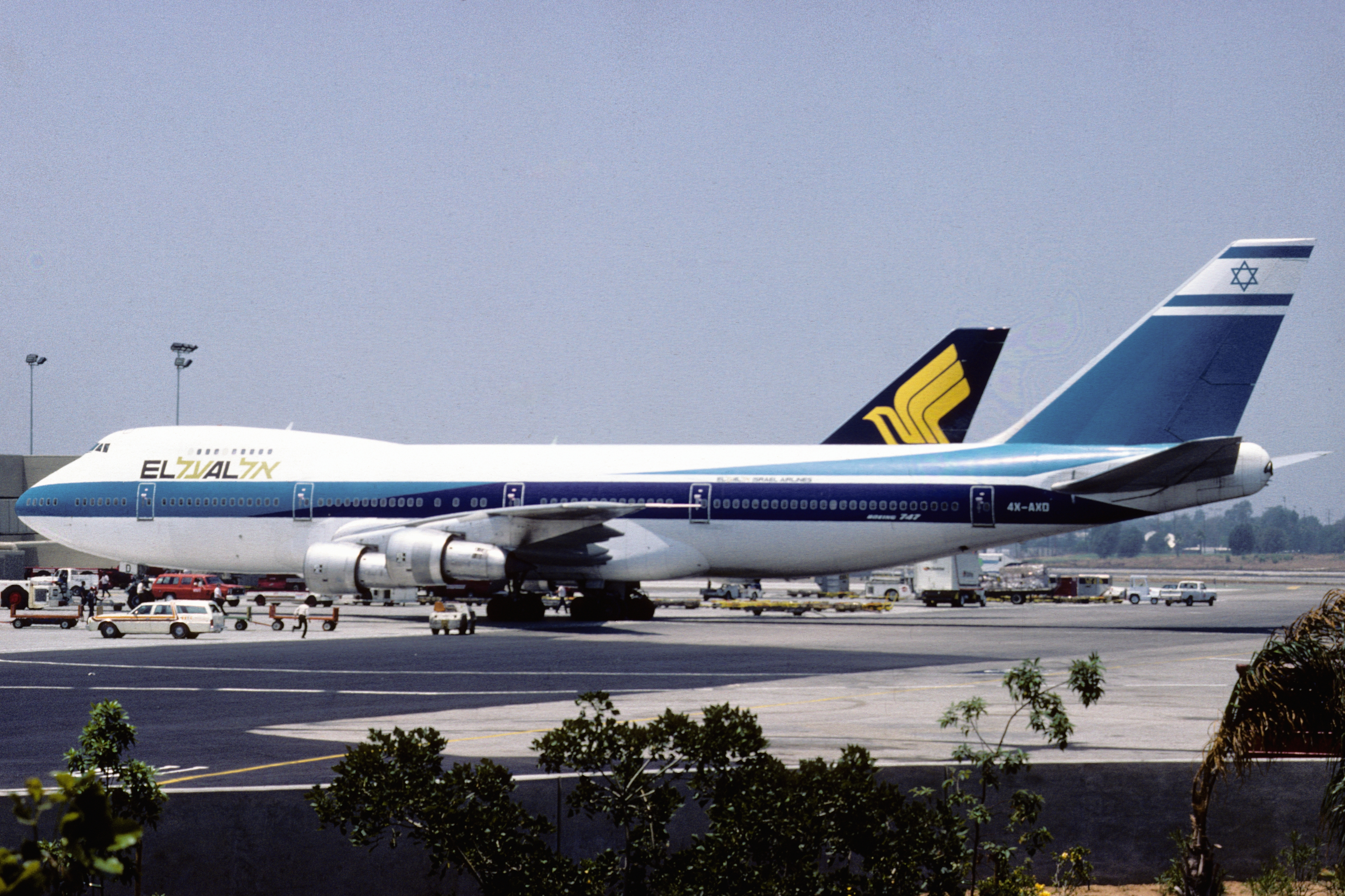 Old Pictures